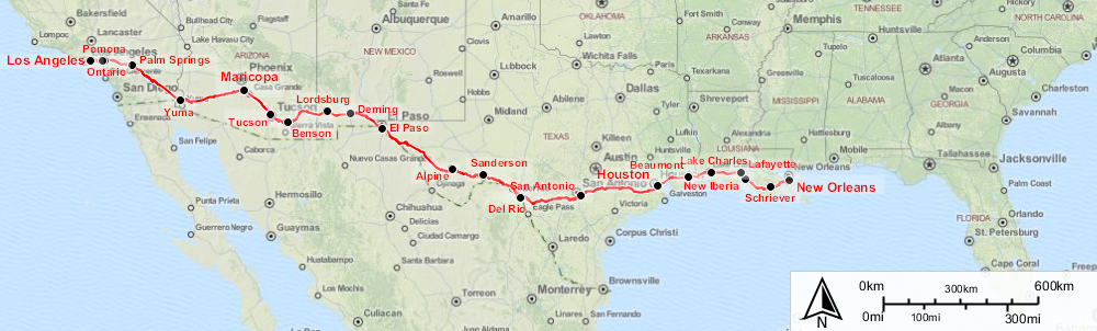 Amtrak Sunset Limited Legend: ━━━ Primary lines ━━━ Secondary lines ━━━ Tertiary lines